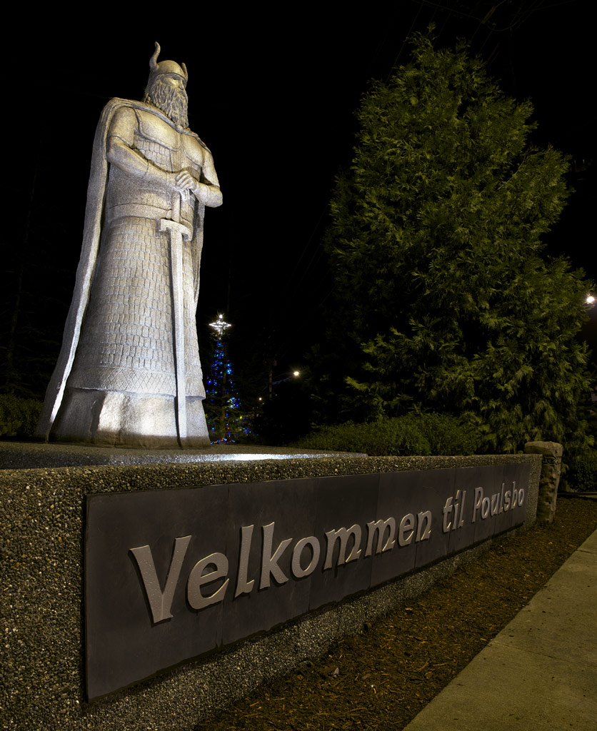 The Norseman is 12-foot tall Viking statue by artist Mark Gale of Tacoma made of steel and concrete that sits at the southeast corner of the Viking Avenue-Lindvig Way.